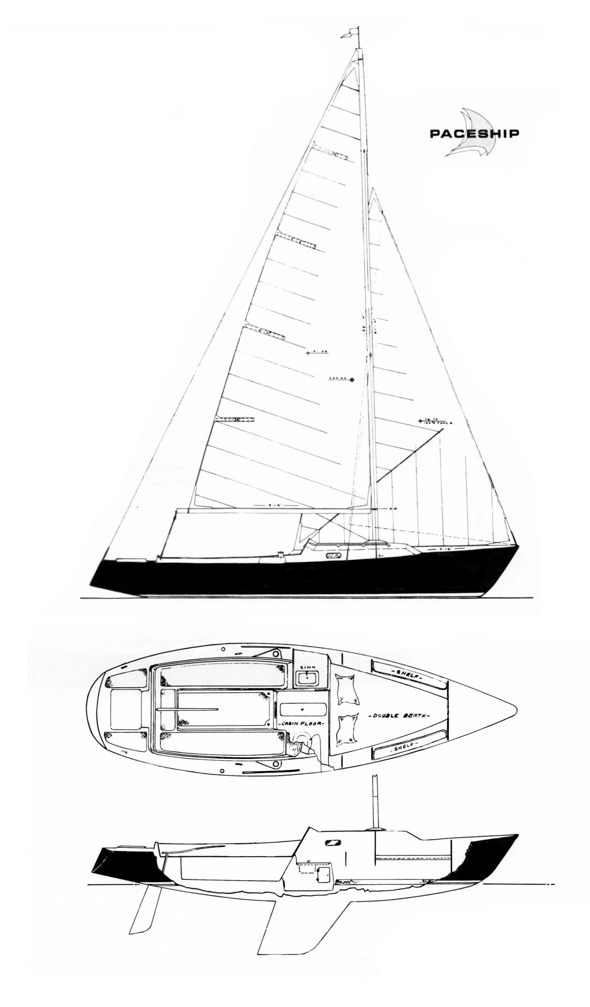 Lines and Accommodations for the Bluejacket 23 Daysailer (Paceship)